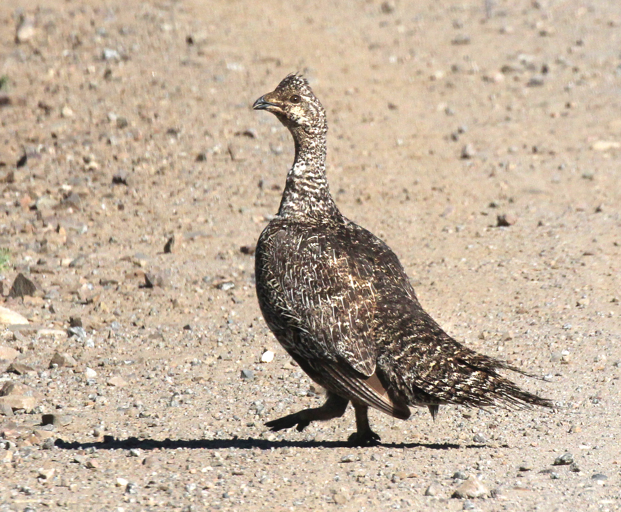 ABA AREA BIRDS: My Photo "Life List"